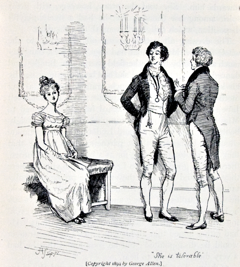 "She is tolerable" - Darcy's comments about Elizabeth to Bingley. Austen, Jane. Pride and Prejudice. London: George Allen, 1894, page 15.